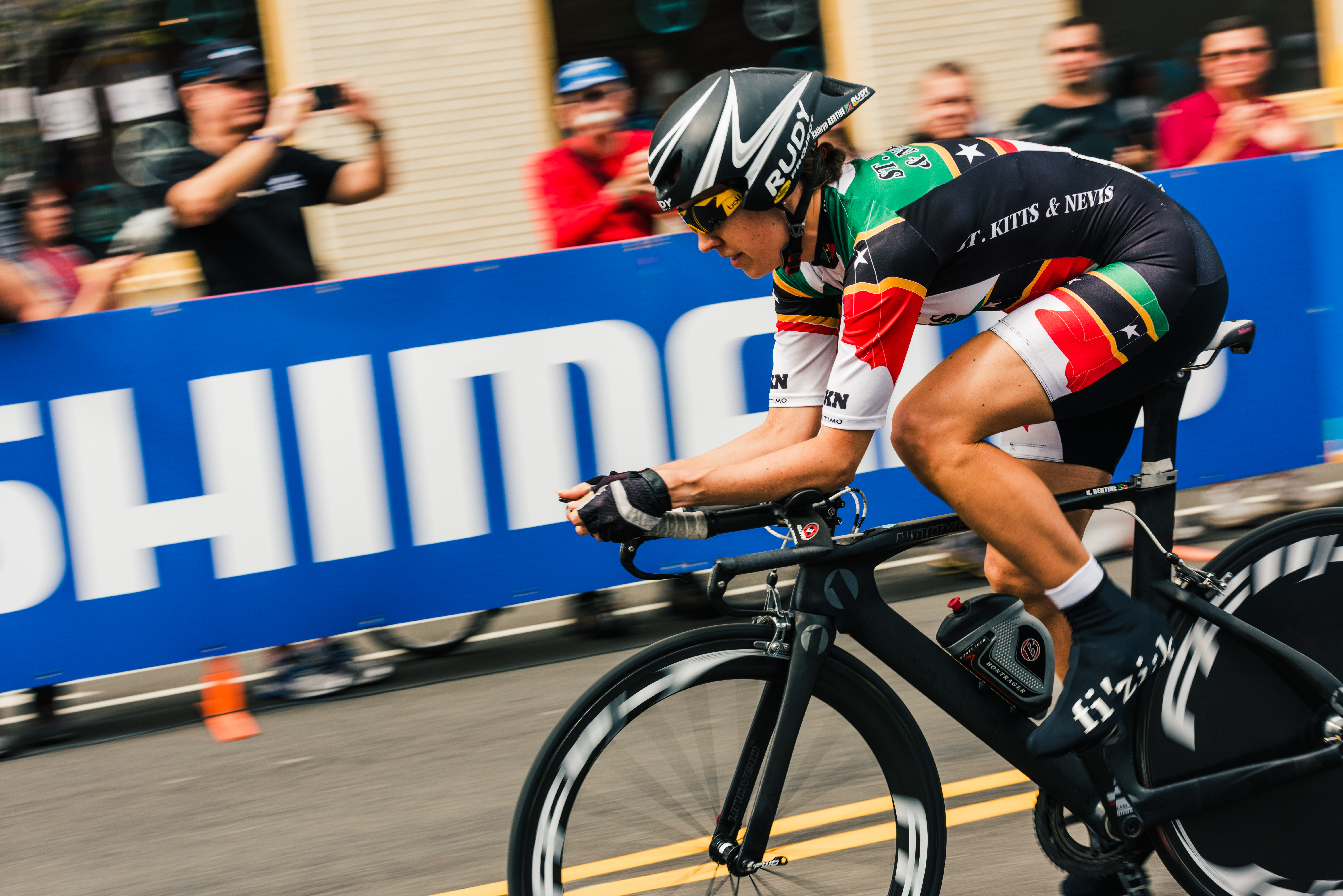 UCI Bike Race 2015 Richmond, VA 2015 UCI Road World Championships – Women's time trial in Richmond, USA